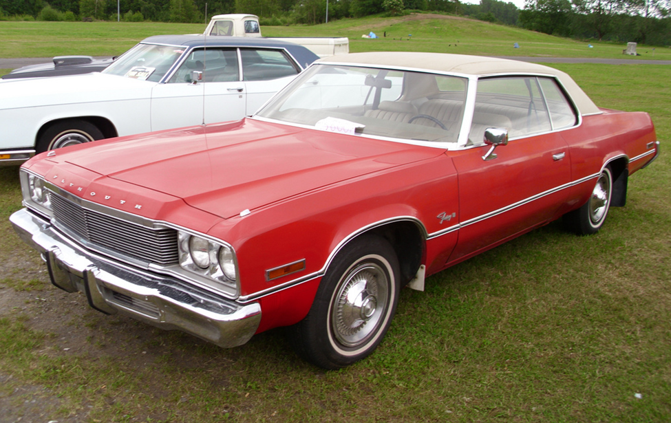 1974 Plymouth Fury II coupe C-body